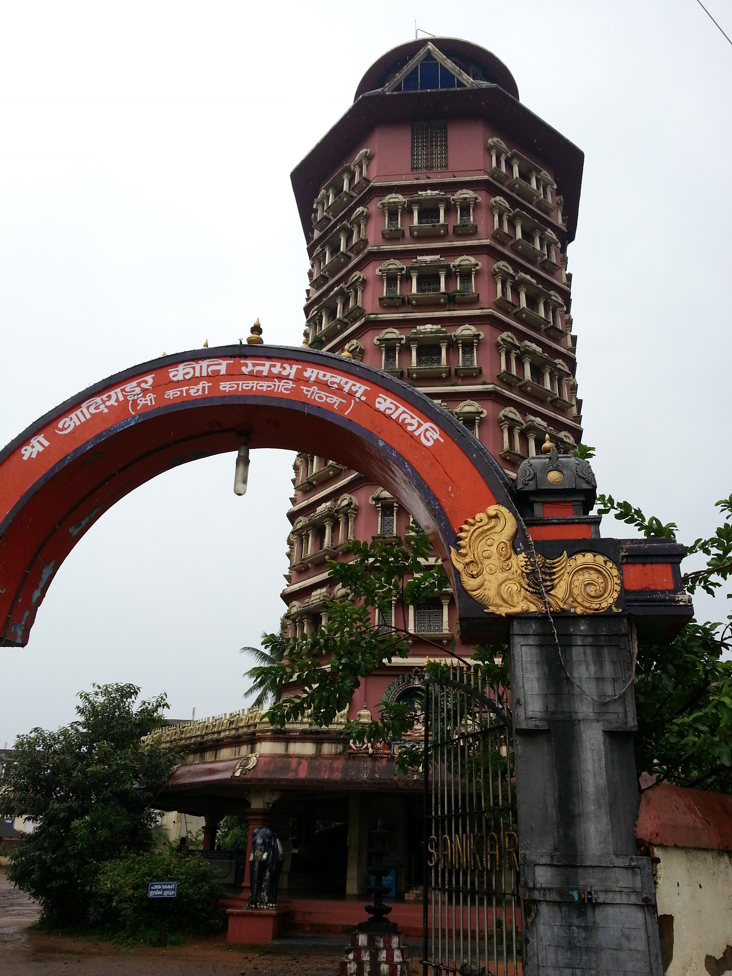 Aadi Shankaracharya Kirthi Sthambha, Kalady. The birth place of Aadi Shankaracharya